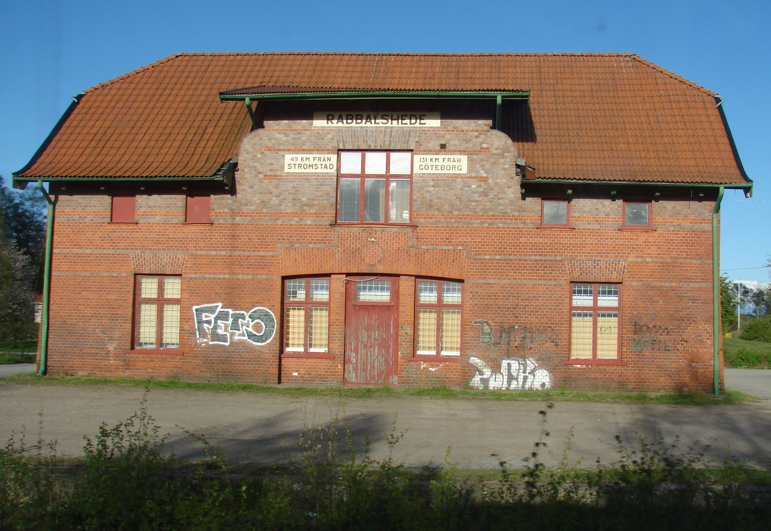 Rabbalshede station, Tanums kommun (municipality)